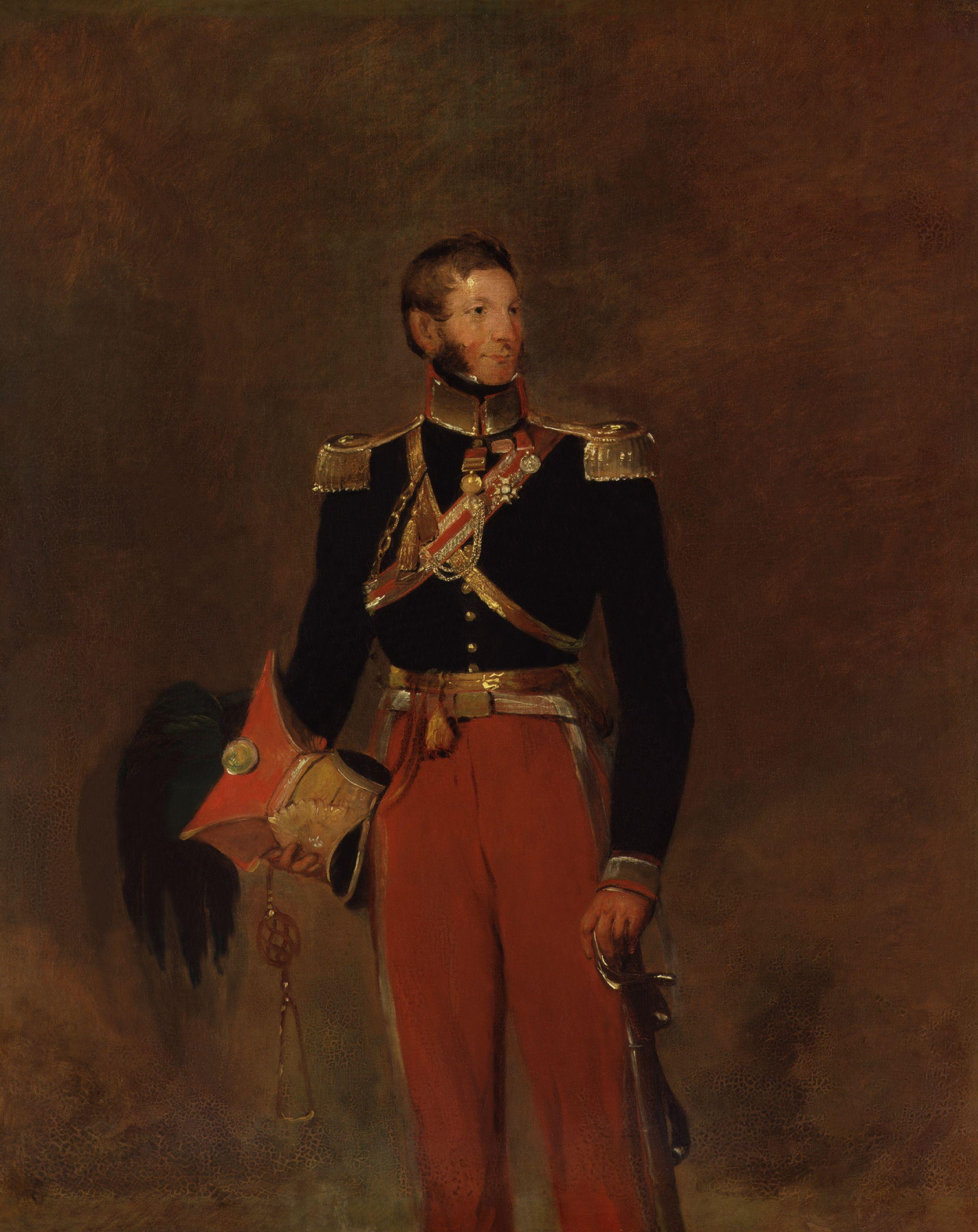 James Hay, by William Salter (died 1875). All images in this batch have been confirmed as author died before 1939 according to the official death date listed by the NPG.